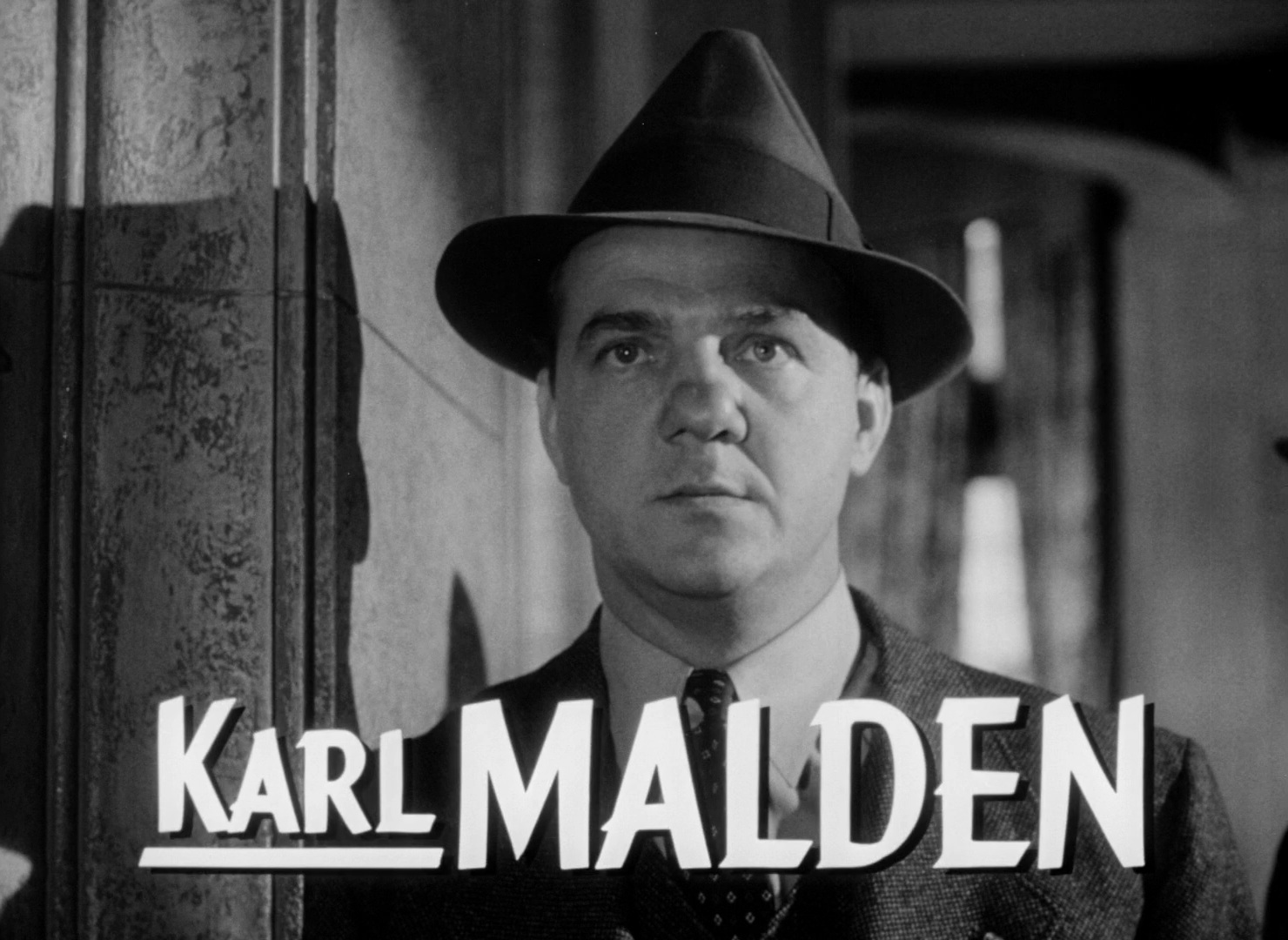 Cropped screenshot of Karl Malden from the trailer for the film I Confess.